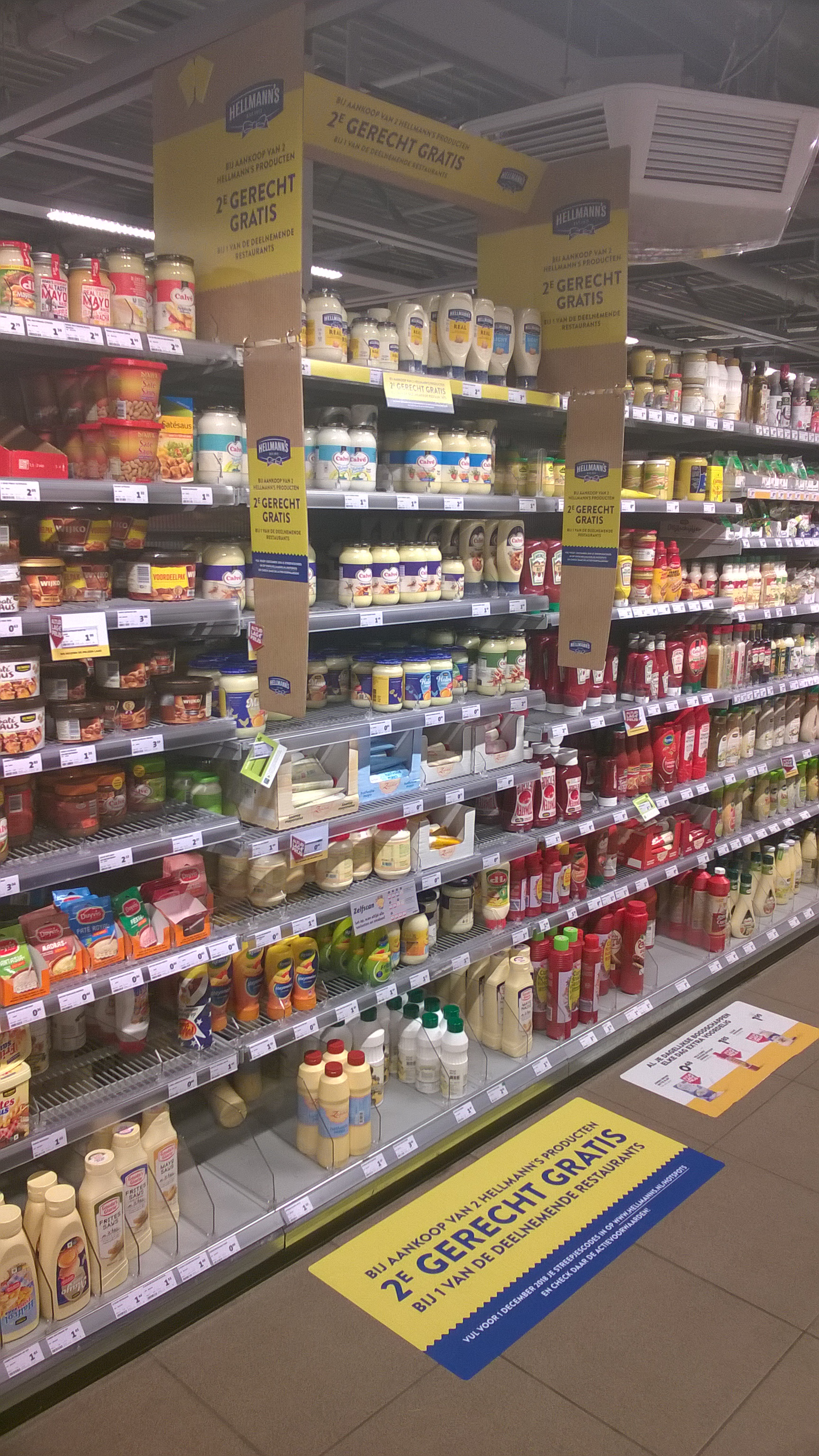 An isle for mayonnaise inside of a Jumbo supermarket in the Groninger city of Oude Pekela.